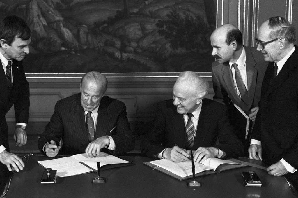 “Soviet Foreign Minister Eduard Shevardnadze meeting with U.S. Secretary of State George Shultz”. From left: Soviet Foreign Minister and Member of the Politburo of the Soviet Communist Party's Central Committee Eduard Shevardnadze and U.S. Secretary of State George Shultz during the document signing ceremony in Moscow.